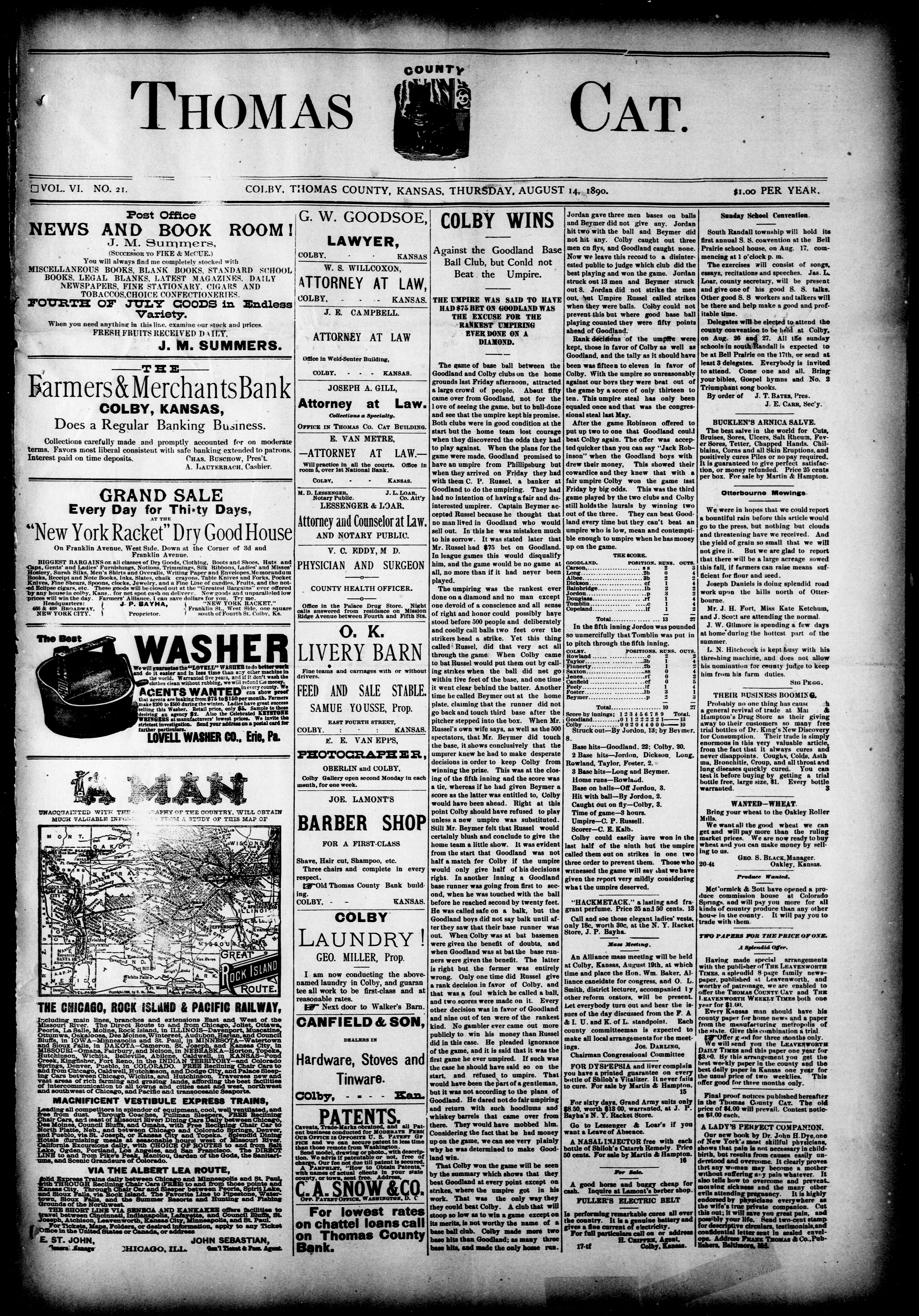 Thomas County Cat, August 14, 1890 (newspaper)